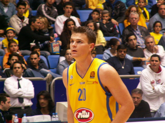 Kirk Penney, played for Maccabi Tel Aviv in the 2005-06 season.